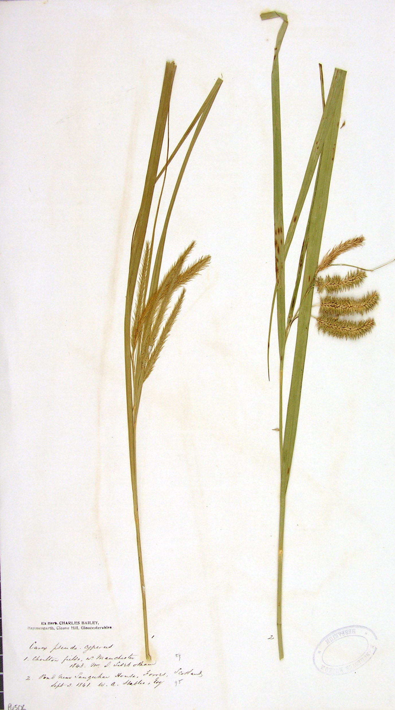 Carex pseudocyperus L. Collected by: Mr William Alexander Stables, Collection date: 3/9/1841, Locality: Great Britain, VC95 Moray, Forres, NJ05, pond near Sanquhar house, ex herb: Mr Charles Bailey Institution: Manchester Museum (MANCH)